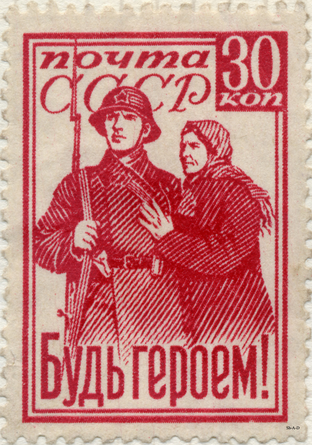 Stamp of USSR